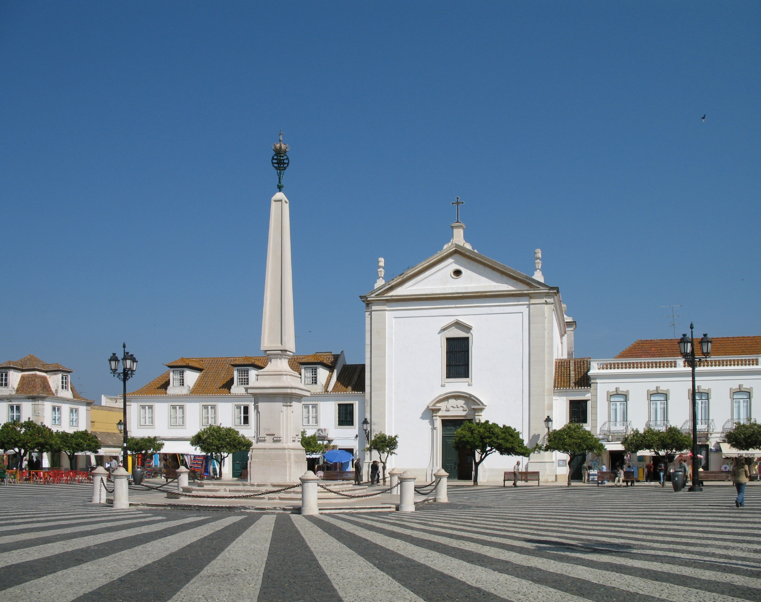 Looking north across the Praça do Marquês de Pombal within the town of Vila Real de Santo António, Algarve, Portugal. The central obelisk dedicated to King Joseph I. The Church Santo Antonio Vila Real is on the north side of the square.